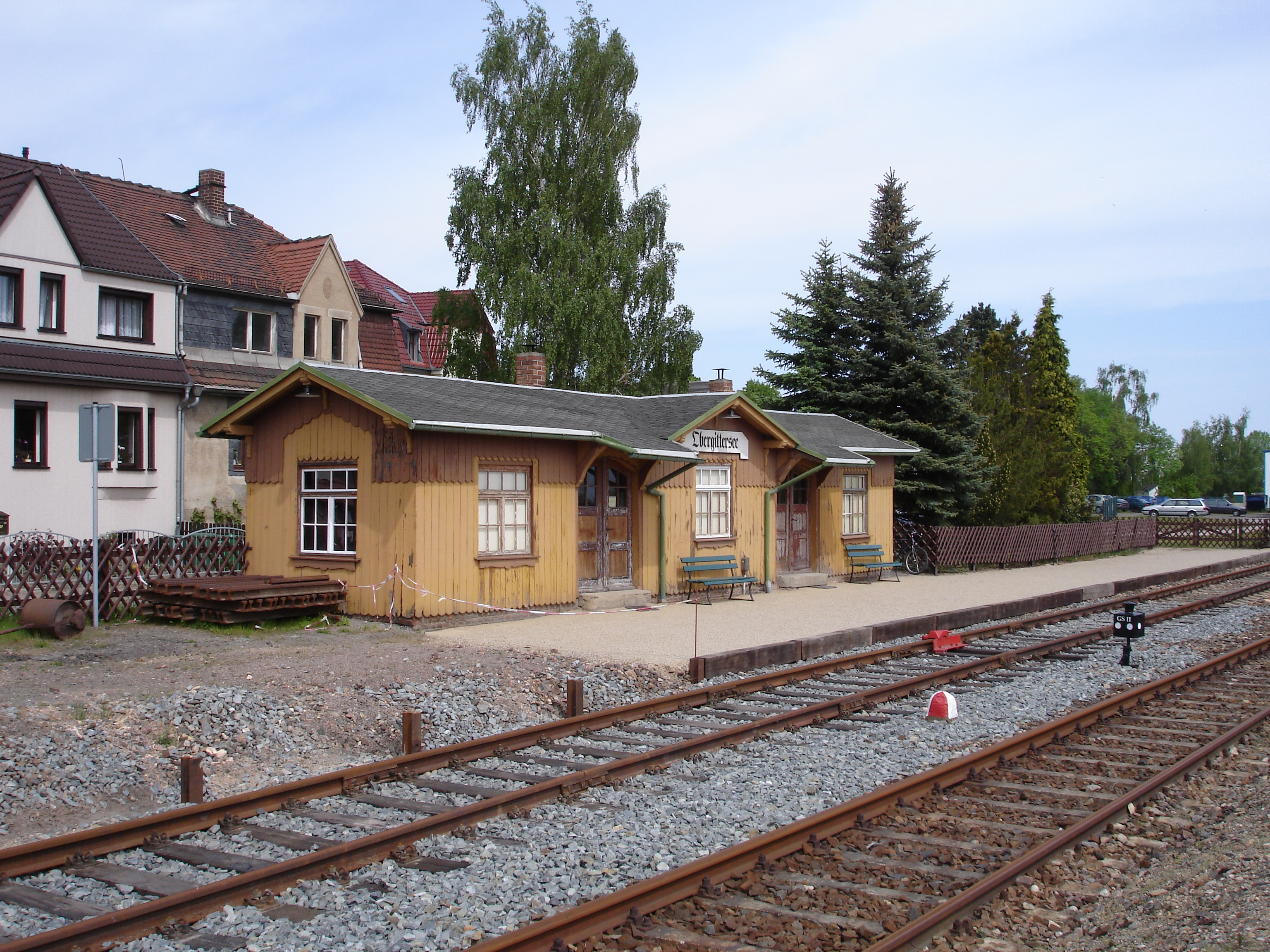 station Dresden-Gittersee, Windbergbahn, Germany